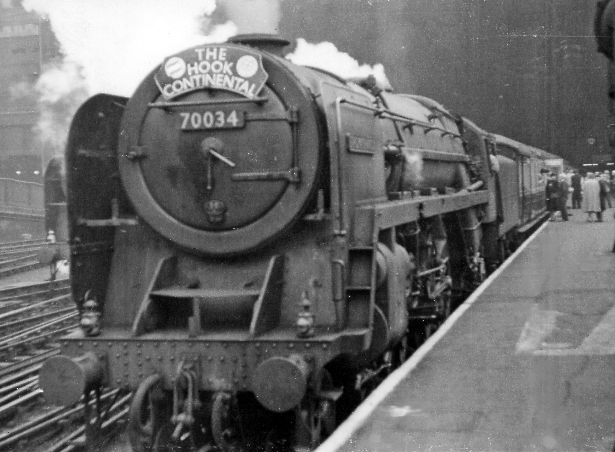 'Hook Continental' waiting to leave Liverpool Street Station. View towards the buffer-stops on the main Platform 9: ex-GE London terminus. The Boat Express to Parkeston Quay will leave at 19.30, with passengers - including myself - for the night crossing to Hook of Holland. The locomotive is BR Standard 'Britannia' 7MT 4-6-2 No. 70034 'Thomas Hardy' (built 12/52, withdrawn 5/67).